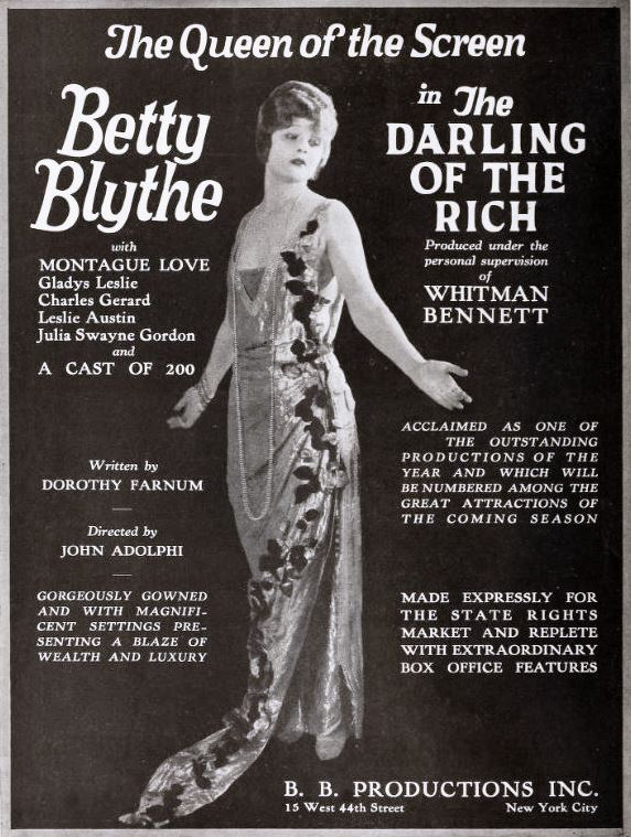 Advertisement for the American drama film The Darling of the Rich (1922), on page 8 of the January 6, 1923 Exhibitors Trade Review.